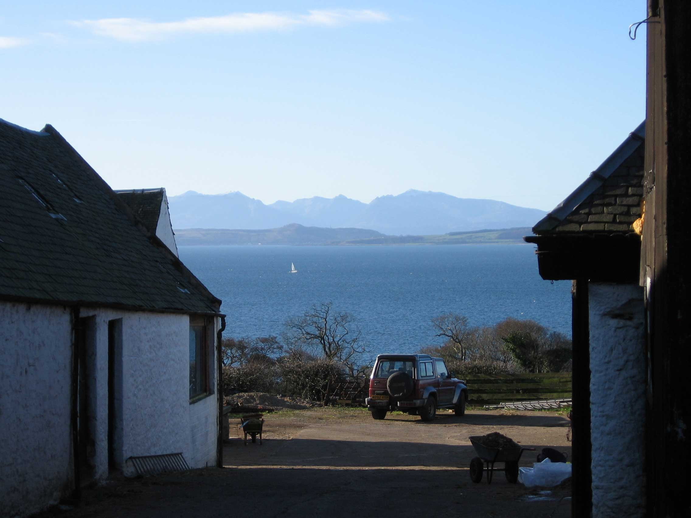 From Auchengarth Farm in North Ayrshire, about 3 miles (5 km) north of Largs, the view south over the Firth of Clyde shows the southern tip of Bute and in the background the spiky peaks of the north end of the Isle of Arran. photograph taken in February 2006 by User:Dave souza. Any re-use to contain this licence notice and to attribute the work to User:Dave souza at Wikipedia.